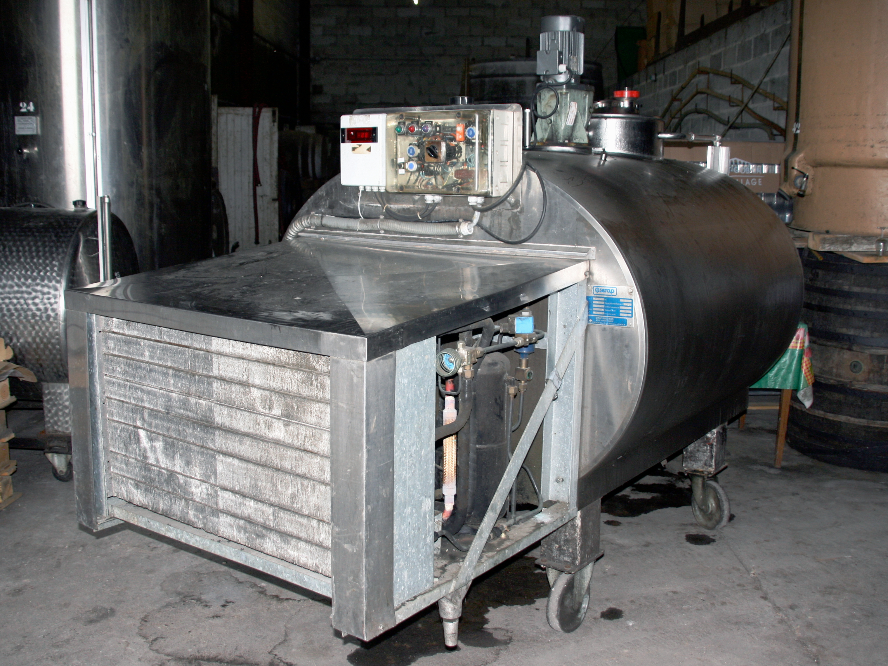 Wine refrigerator in a wine farm and Cognac distillerie in Cherves de Cognac, Charente, Poitou-Charentes, France. In this machine, the lees precipitate in the bottom of the vat, and the Cognac becomes clearest. Then, it is exported in north Europe, where customers prefers clear Cognac. This refrigerator was made by Serap Industries, in Mayenne, France.